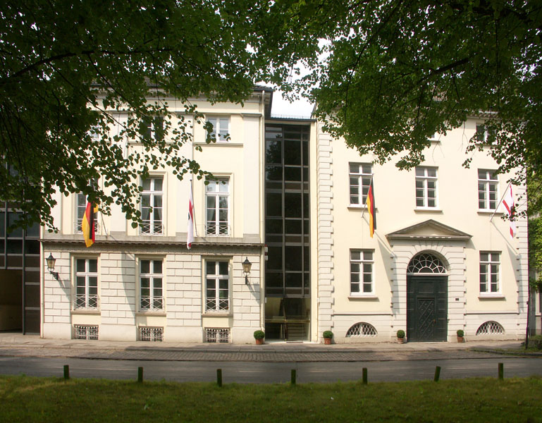 Headquarter in Hamburg (Germany), Reederei Blumenthal